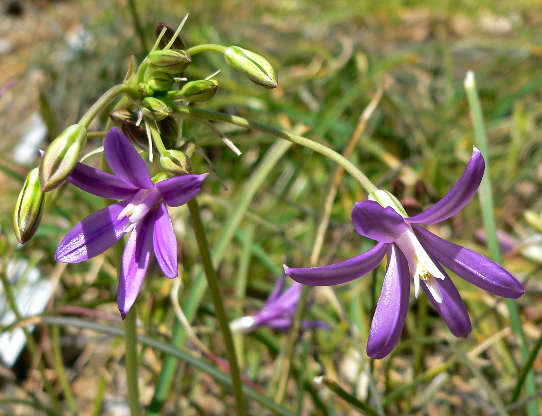 Brodiaea appendiculata at the University of California Botanical Garden, Berkeley, California